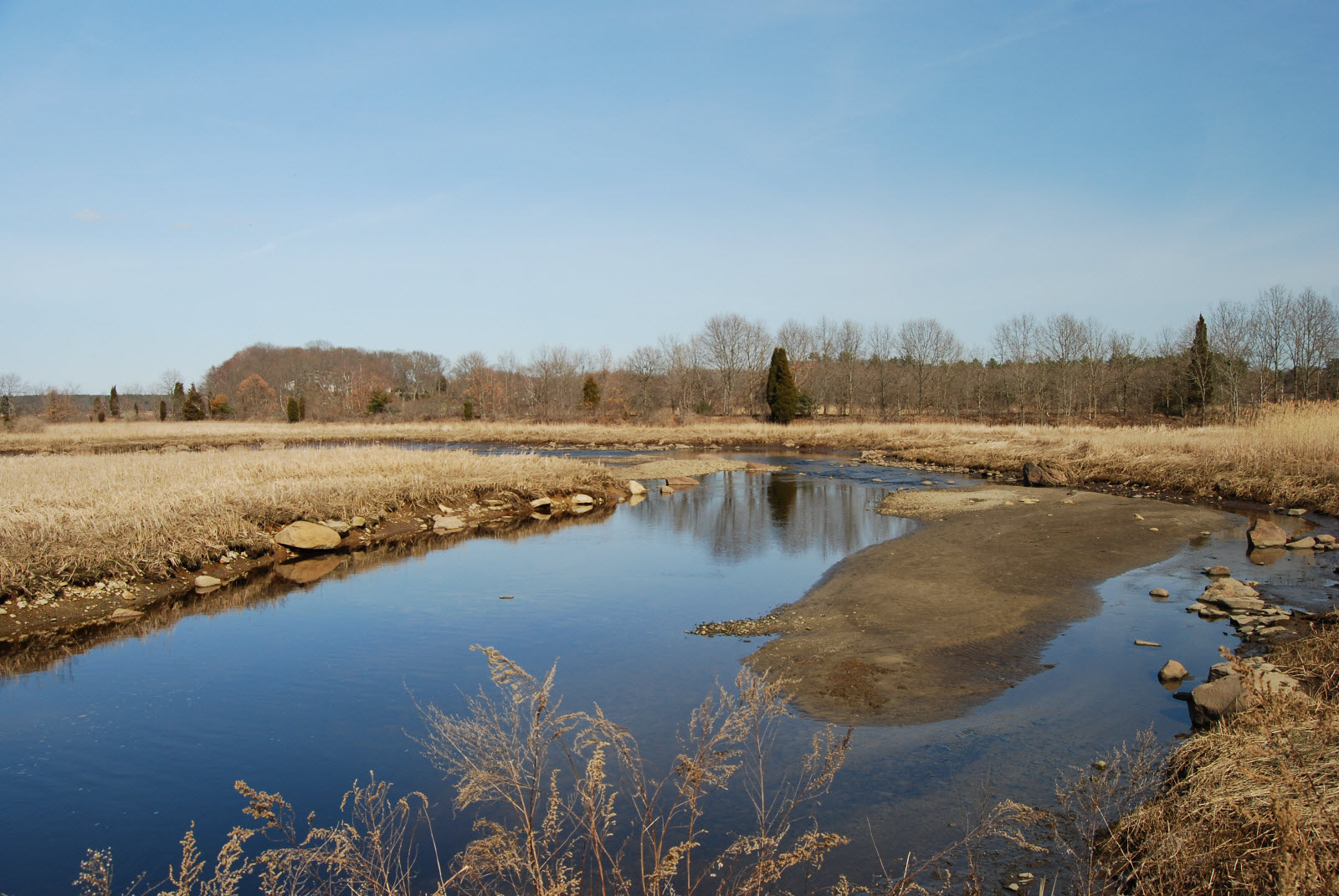 View of Segreganset River at low tide, from Route 138 bridge in Dighton, Massachusetts